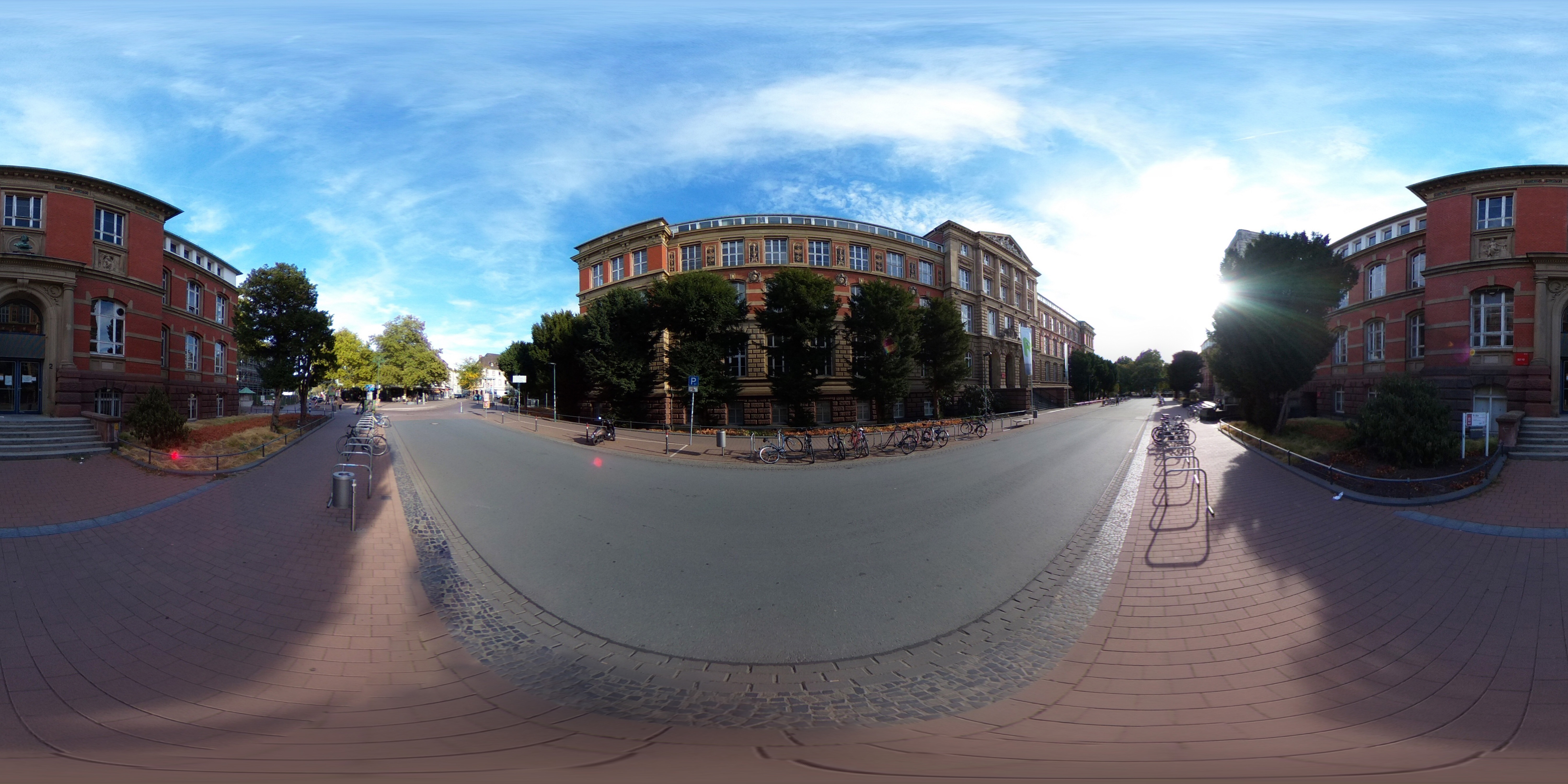 The Technische Universität Darmstadt (unofficially Technical University of Darmstadt or Darmstadt University of Technology), commonly referred to as TU Darmstadt, is a research university in the city of Darmstadt, Germany.